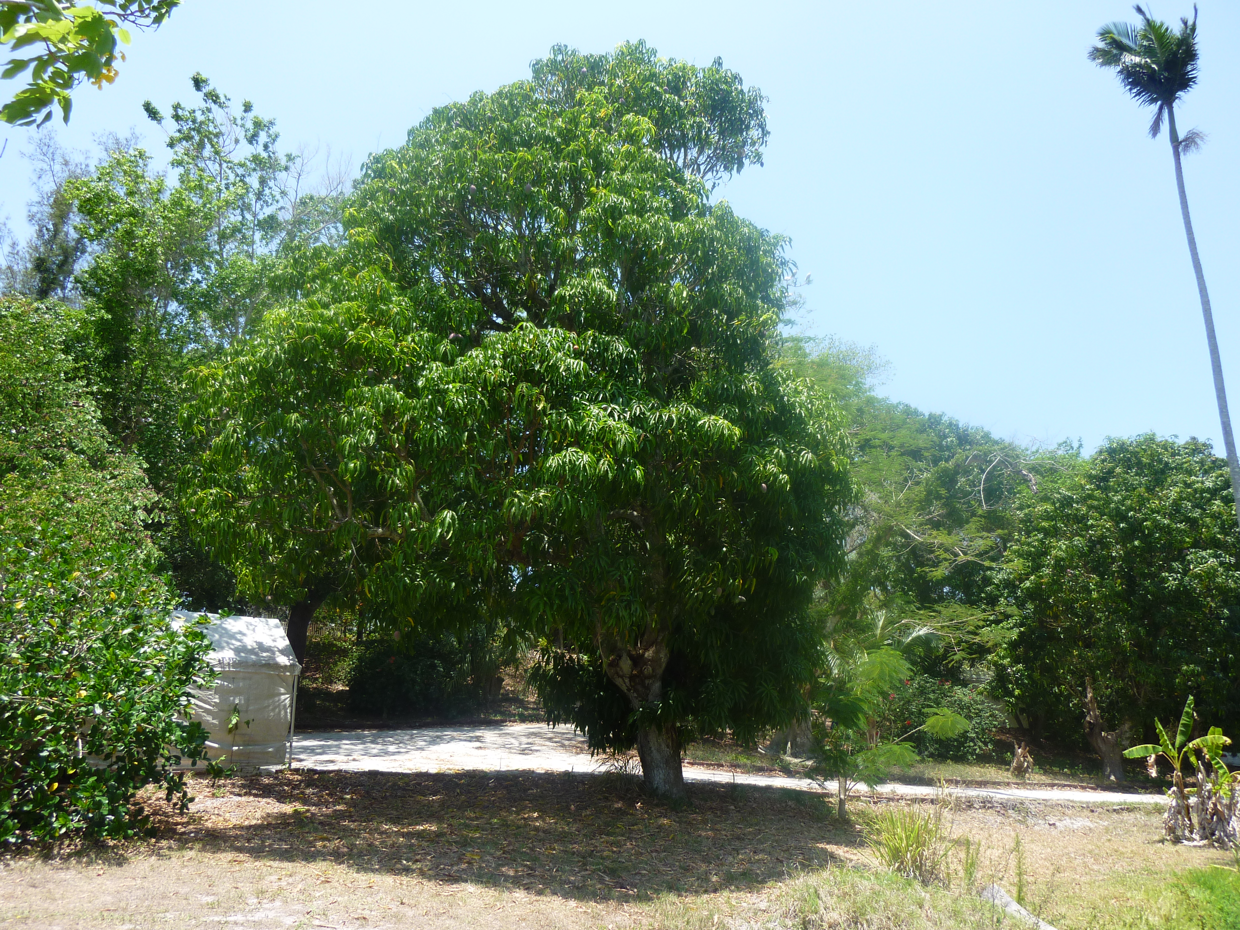 Photograph of what is believed to be the original Cogshall mango tree, growing on Pine Island in Bokeelia, Florida.